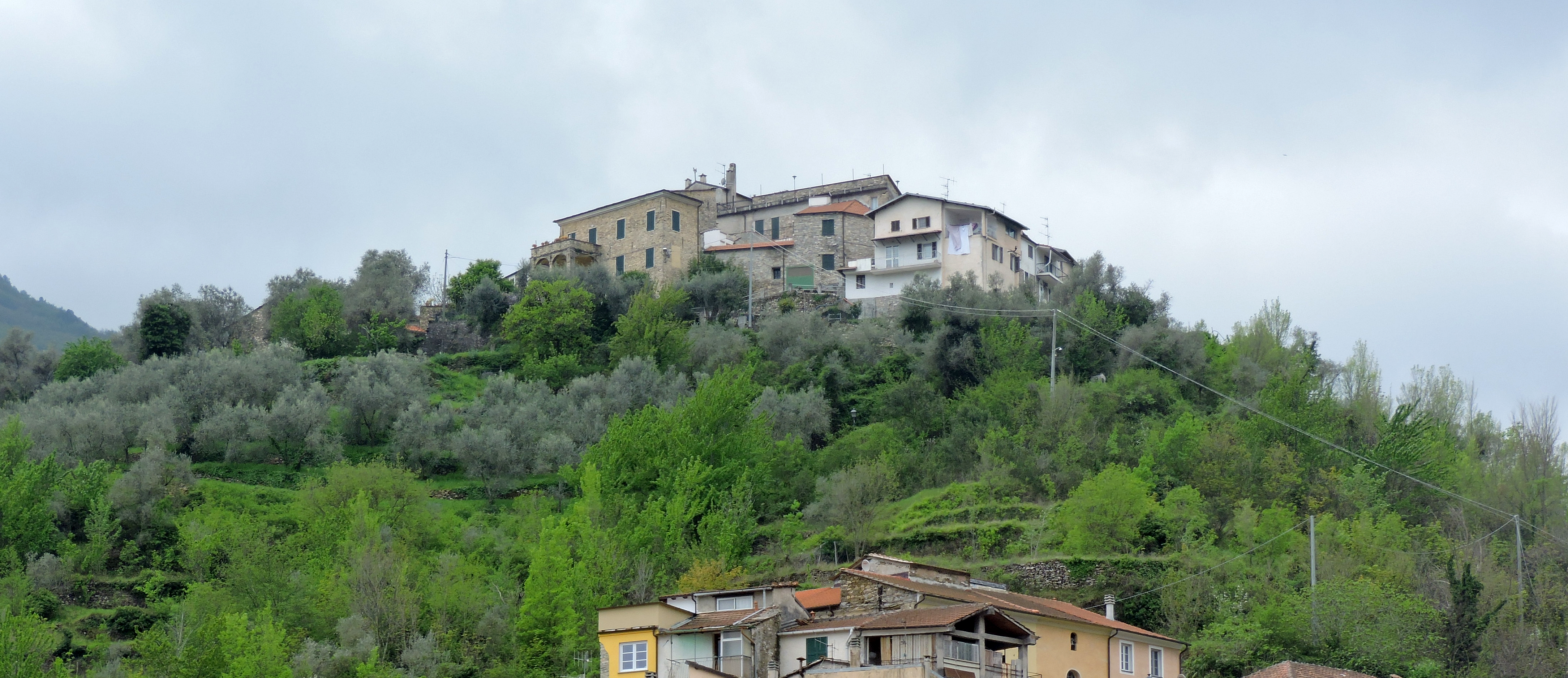 Maro Castello (Borgomaro, IM, Italy) as seen from Borgo